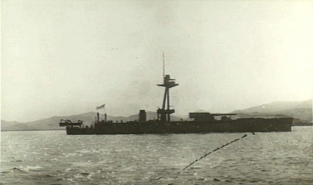 AWM caption : "At Sea, Turkey. July 1915. A broadside view of the HMS Abercrombie, one of the latest class, at that time, of monitors which, with other warships, began to reappear off Anzac, Gallipoli Peninsula. These vessels were specially built with blister sides to protect the main part of the structure against the shock and destructive effect of torpedo explosion. They were practically floating platforms for two large American guns with 14.5 calibre."